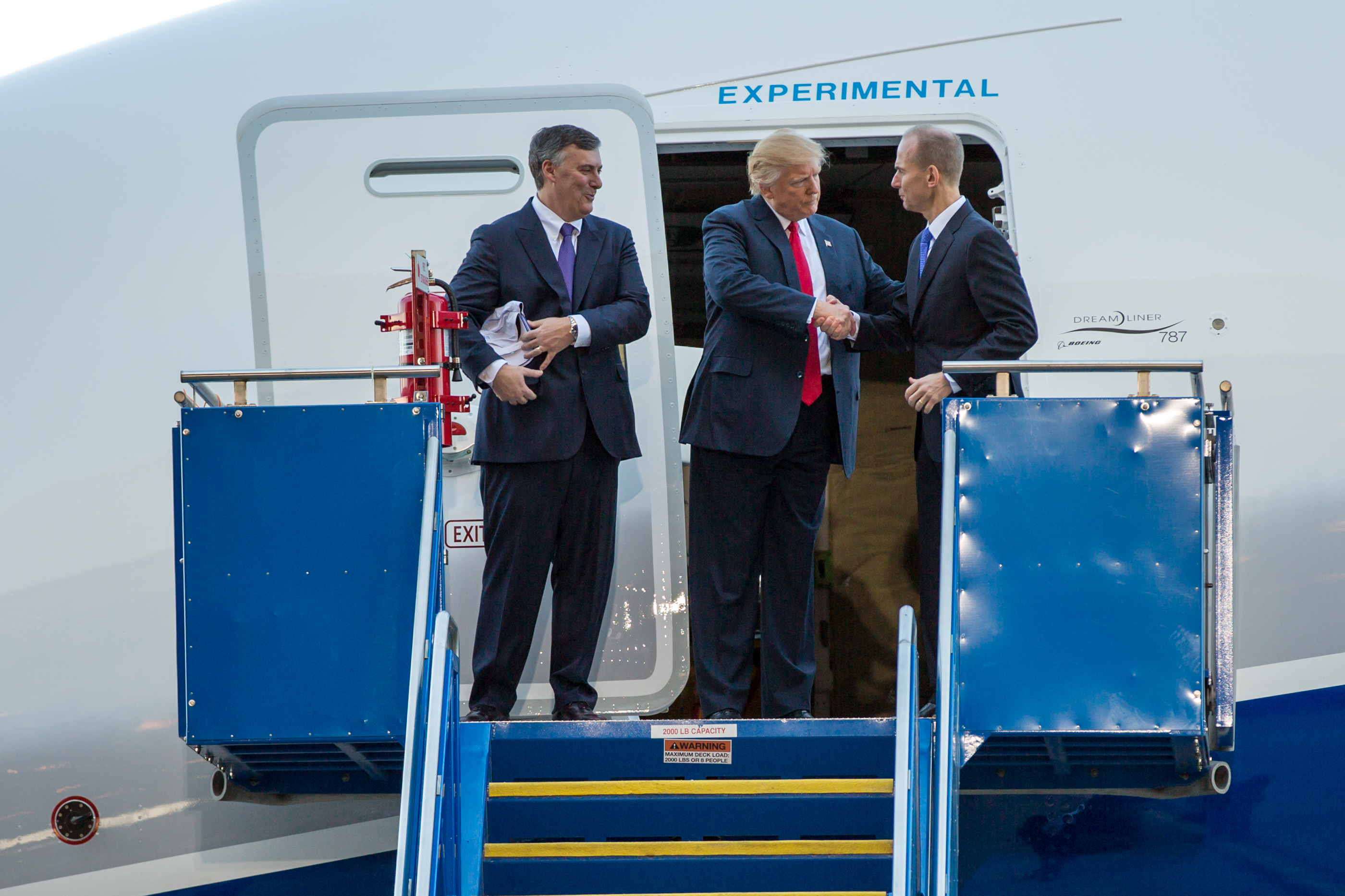 On February 17, 2017, Boeing South Carolina in North Charleston, SC rolled out the first 787-10. US President Donald Trump (POTUS) was in attendance at the ceremony. The 787-10 will be built exclusively in North Charleston, SC. Photo by Ryan Johnson